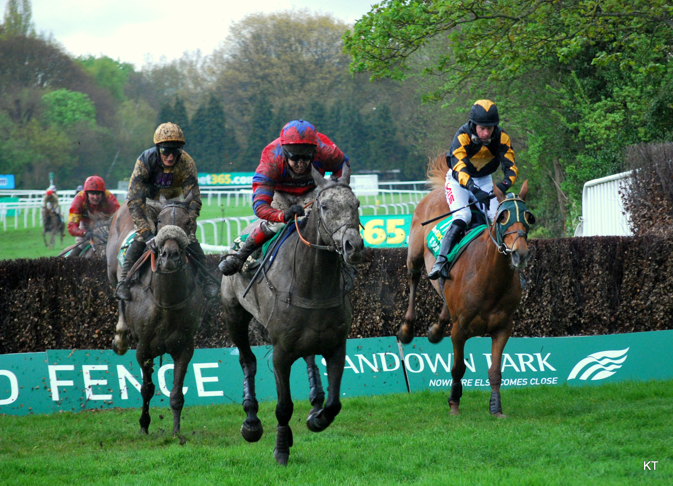 Tidal Bay jumps the 3rd last behind Roalco De Farges (2nd) with Vic Venturi (4th), on his way to winning the bet365 Gold Cup at Sandown. April 28th 2012.